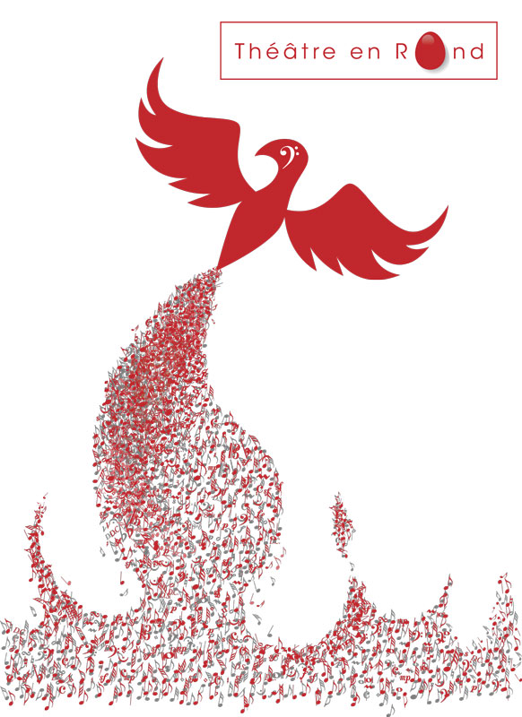 Phoenix rebirth